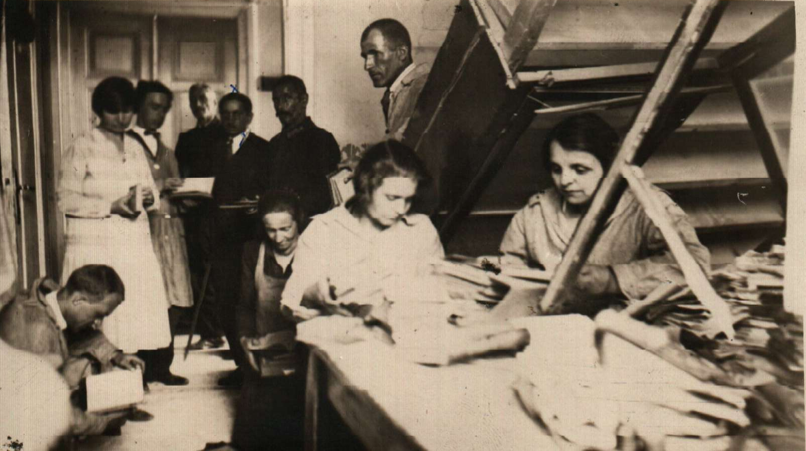 Ivan Vazov National Library, Plovdiv, Bulgaria. - Library staffers putting order in the library after the devastating Chirpan Earthquake (14-25 April 1928)